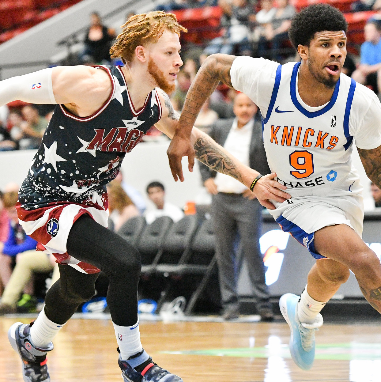 Hassani Gravett, Lamar Peters, Melvin Frazier Jr. Lakeland Magic vs Westchester Knicks. RP Funding Center. Lakeland, Fla. Jan. 11, 2020. (Photo by Tom Hagerty.)